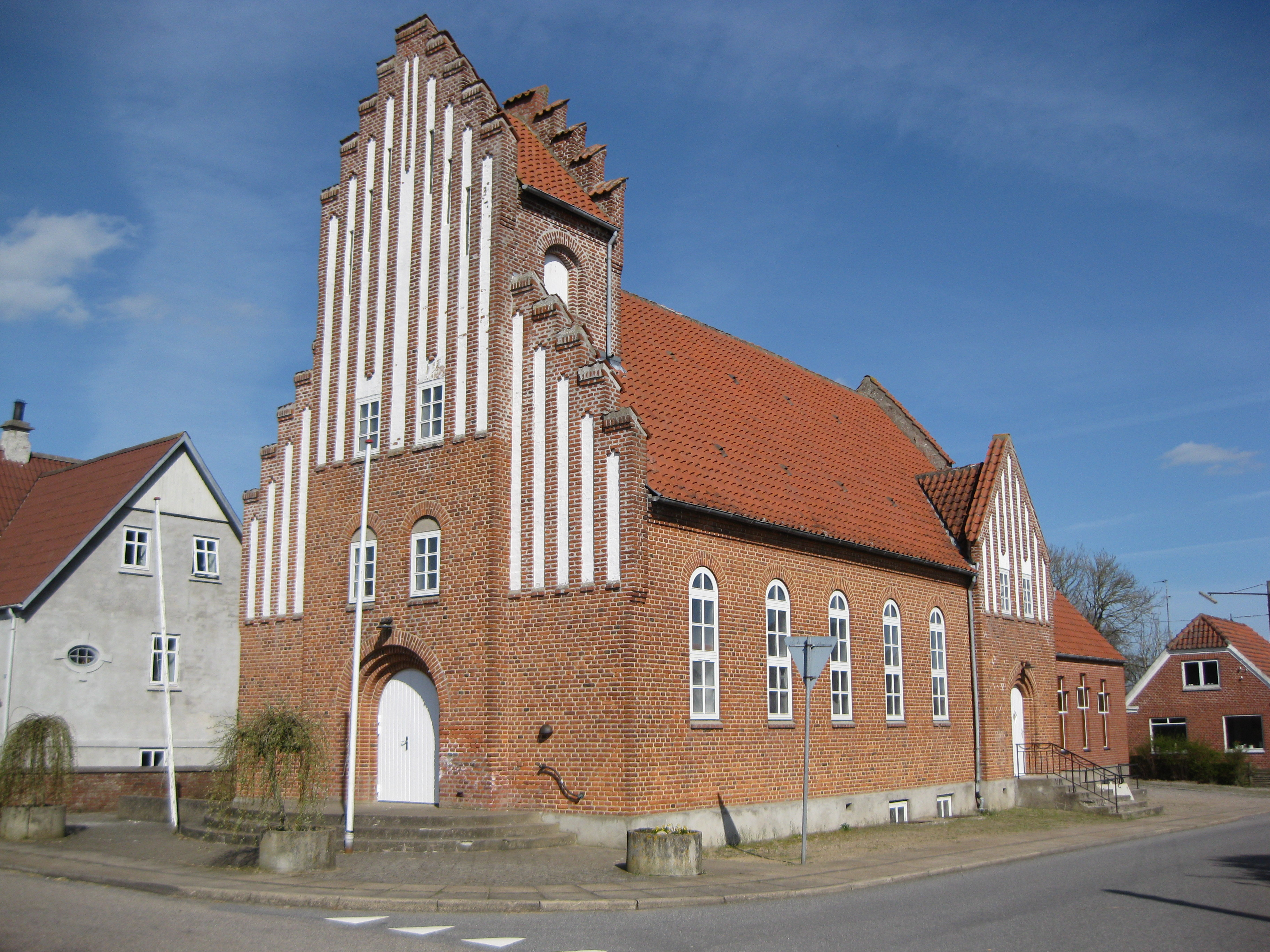 The Baptist church in the small town "Østervrå". The town is located in North Jutland, Denmark.